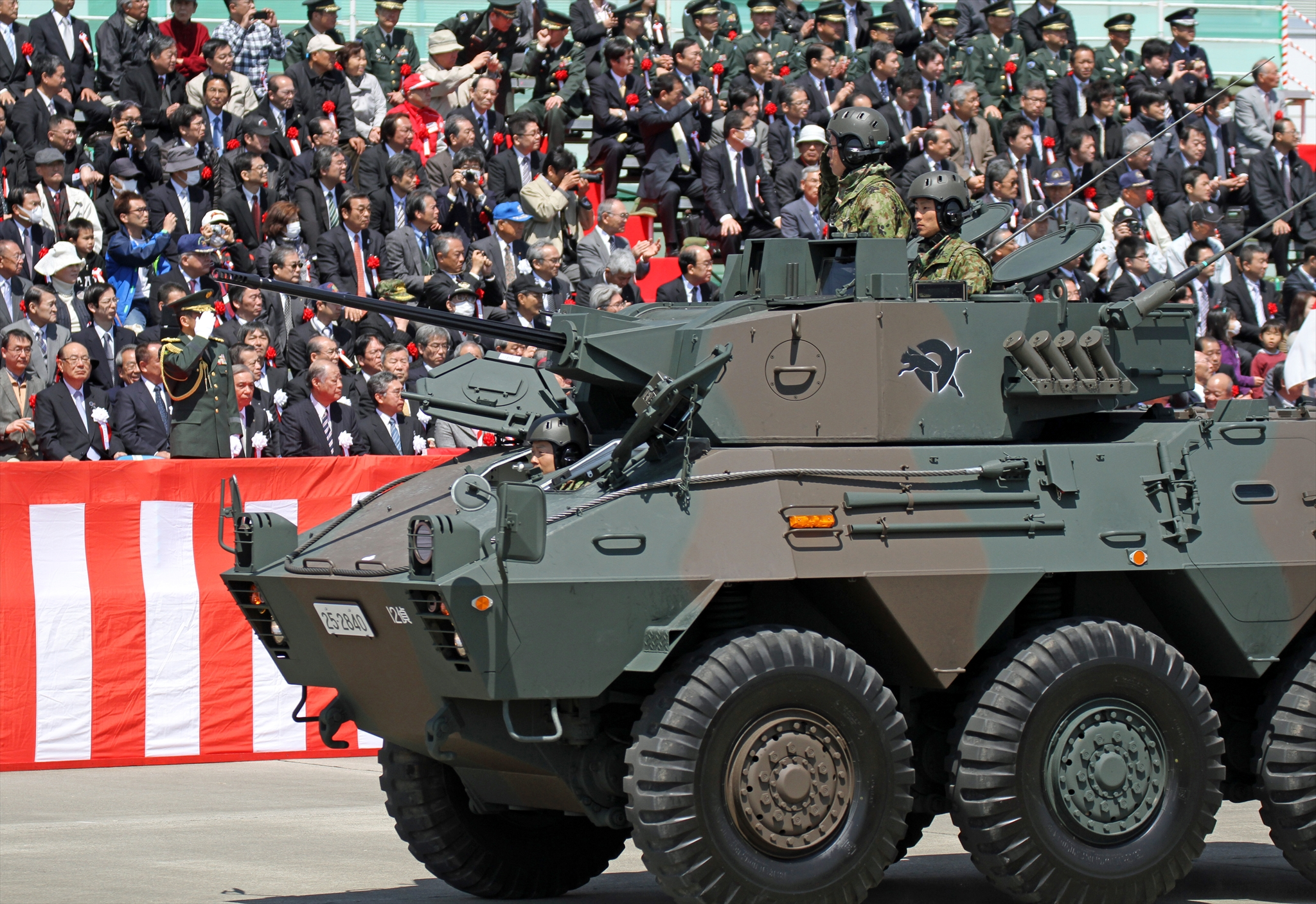 Title 第１２旅団創立１２周年及び相馬原駐屯地創設５４周年記念行事・観閲行進（４月１３日、相馬原駐屯地）.jpg Album Events and Public Relations (イベント・行事・広報活動等) 第１２旅団創立１２周年及び相馬原駐屯地創設５４周年記念行事・観閲行進